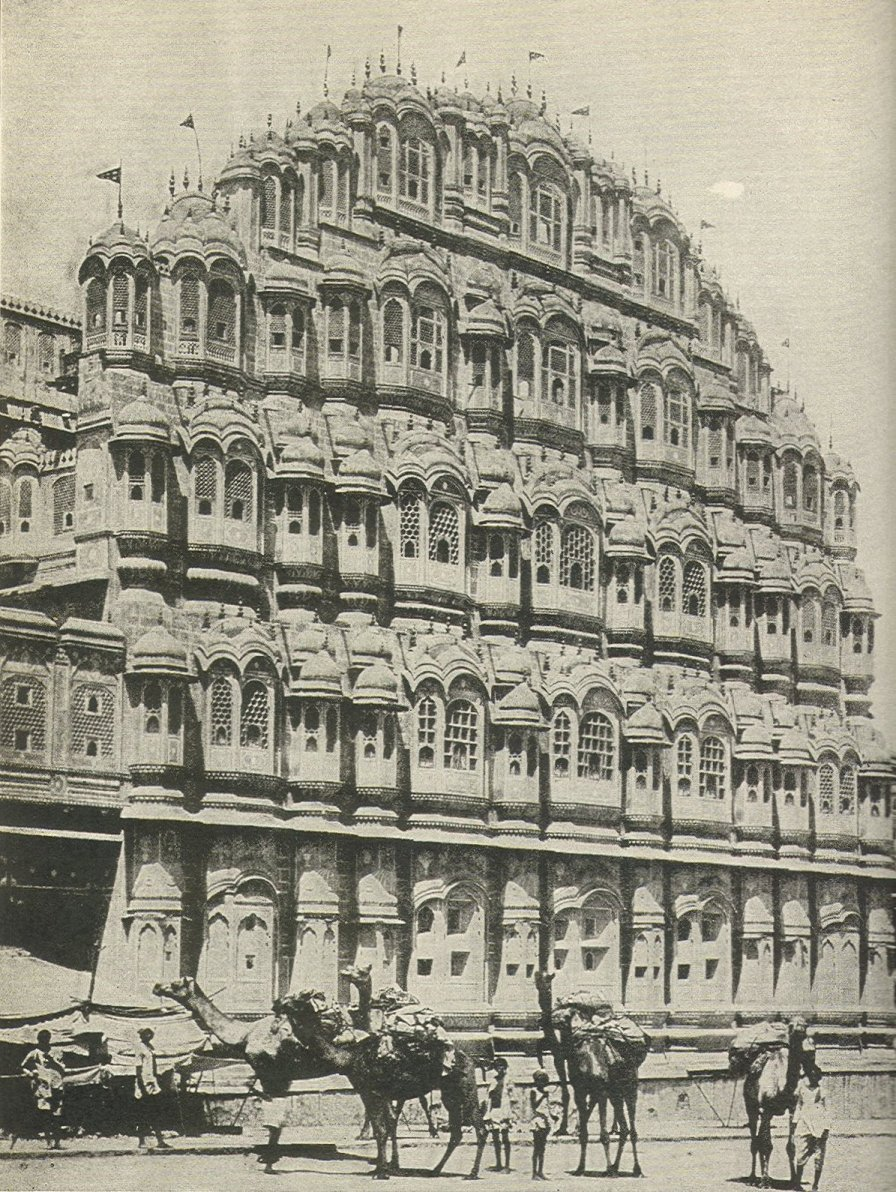 Hawa Mahal building, Jaipur, India. Original caption: THE HAWA MAHAL, OR HALL OF THE WINDS, JEYPORE, INDIA. Part of the Palace of the Maharajas of Jeypore. It is composed entirely of pink and white stucco and is a unique piece of Indian architecture. It was built by the founder of the city, Jey Sing, in 1728.